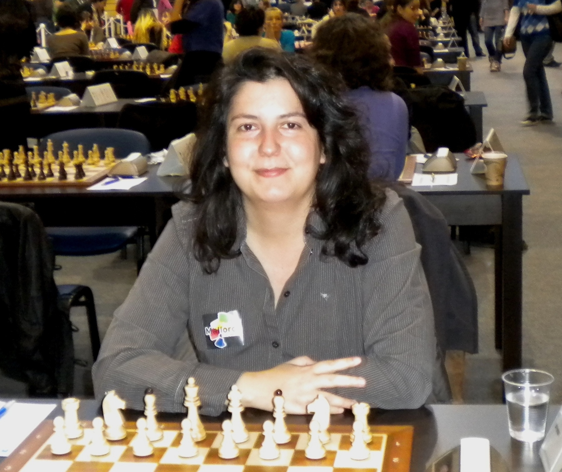 WGM Monica Calzetta Ruiz at Rijeka open 2010.